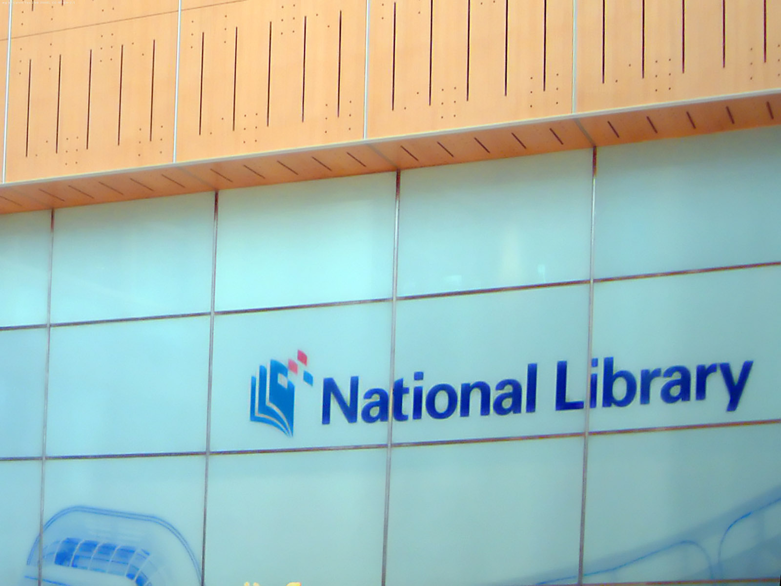 National Library Indoor Signage, National Library, Singapore (Taken with Permission by Library Authorities)